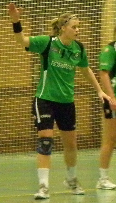 Randi Skylvsdóttir Wardum is a Faroese sportsperson. She is a football player and handball players. In handball (the photo) she plays for Kyndil from Tórshavn. In football she plays for KÍ from Klaksvík and for the Faroe Islands national football team (women). She and two other players have the record as the most capped players of the women's Faroe Islands national team with (until now, January 2013) 25 matches. In football she is a goal keeper.